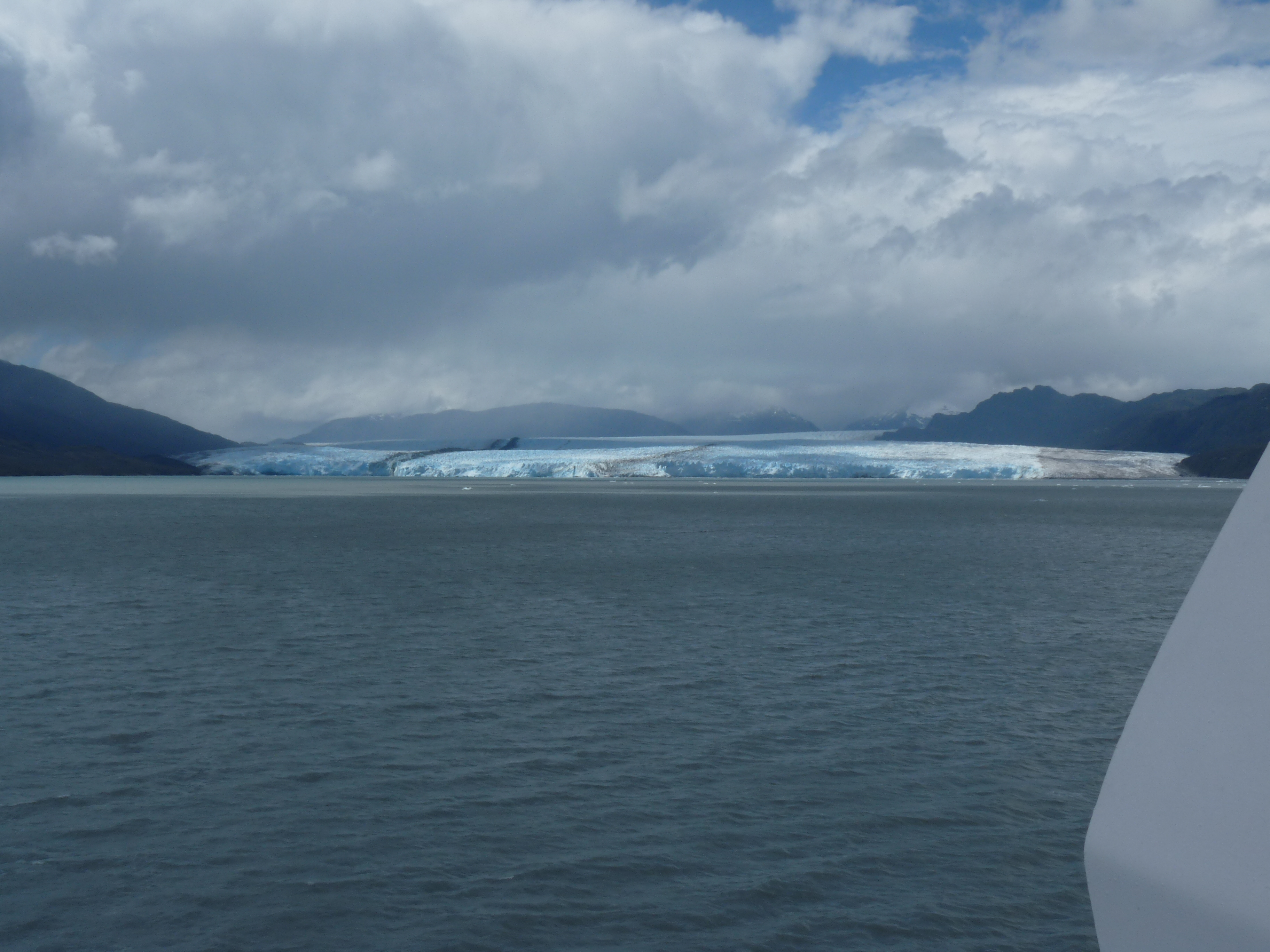 General view of the Pio XI galcier in Patagonia, Chile